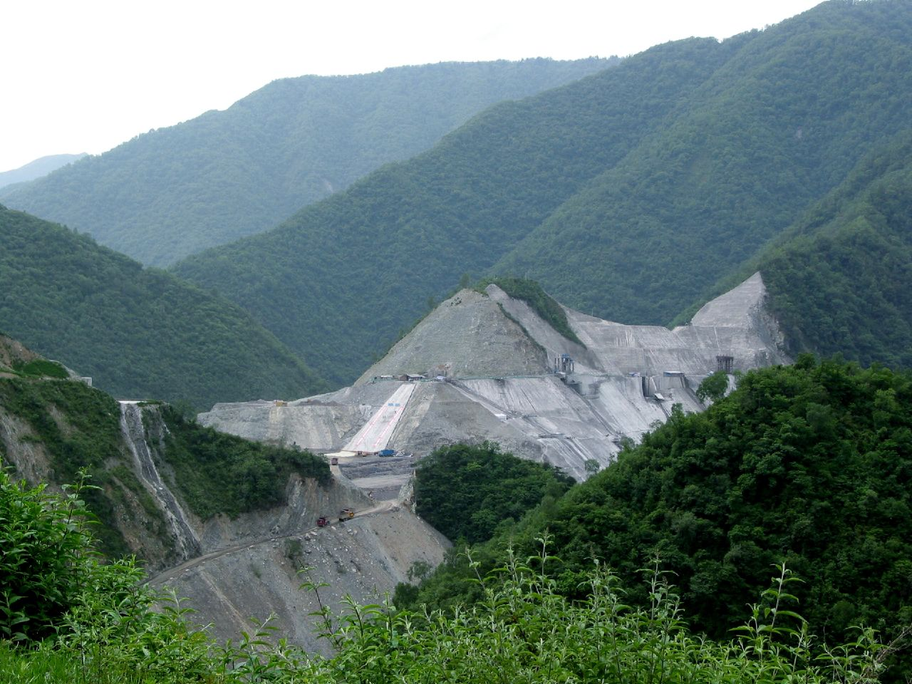 The following is the author's description of the photograph quoted directly from the photograph's Flickr page."Minshan development "